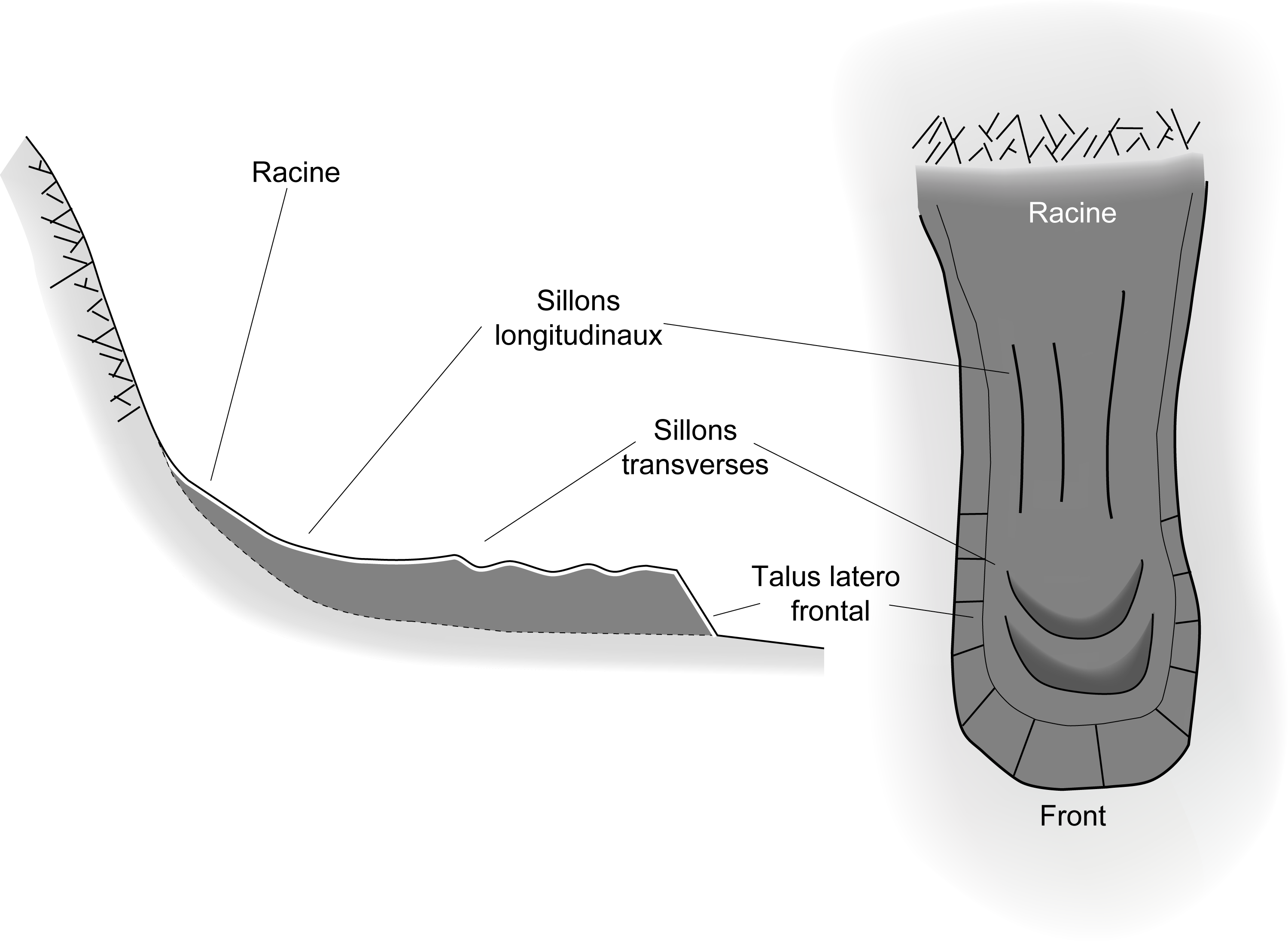 Typical morphology of a rock glacier (left: cross section; right: plan view)